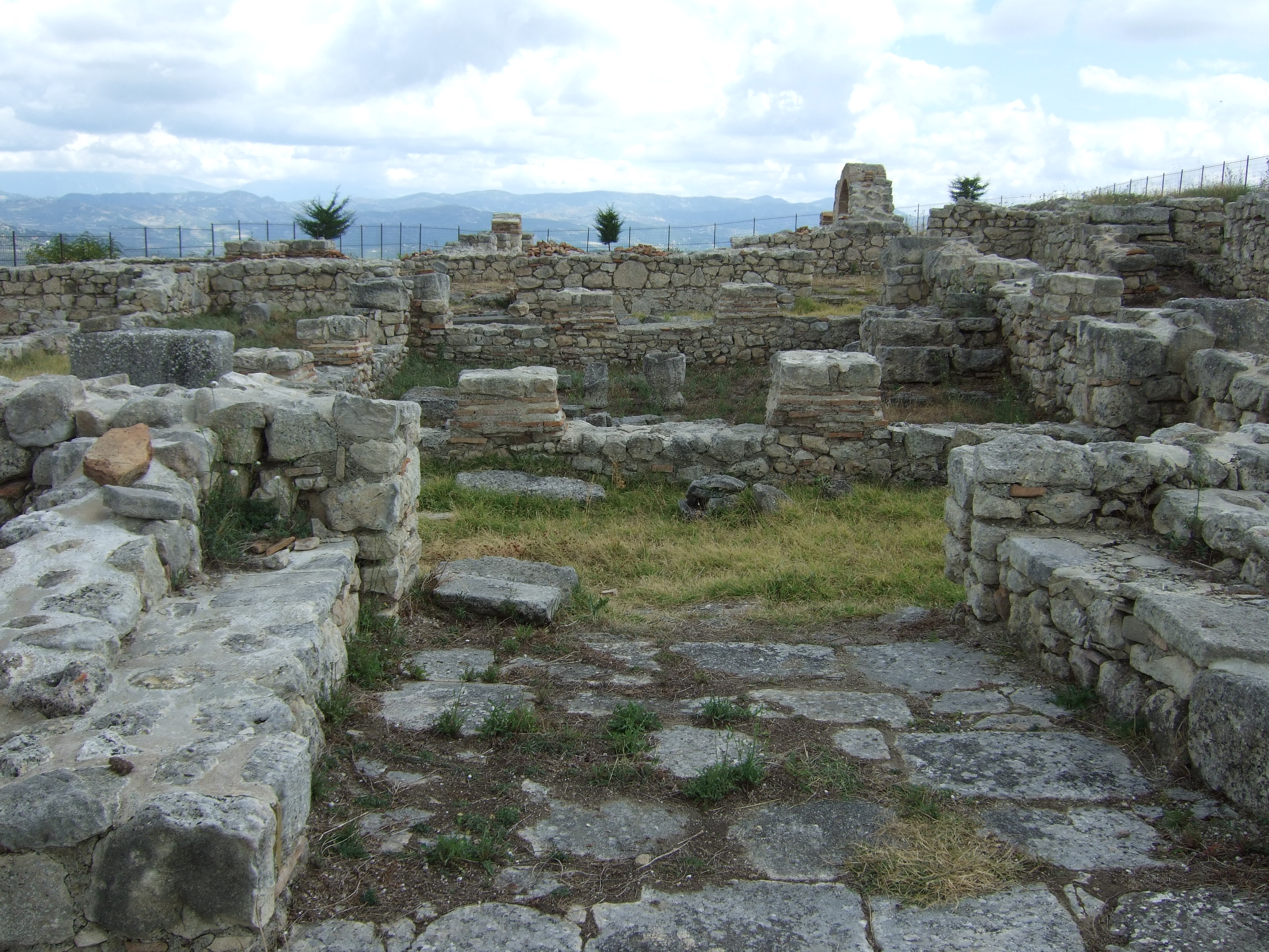 Basilika D at archaeological Park Byllis